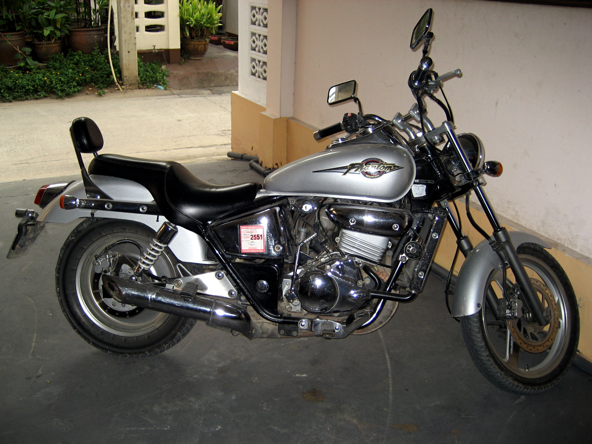 Honda Phantom TA150 two-stroke motorcycle, made in Thailand.